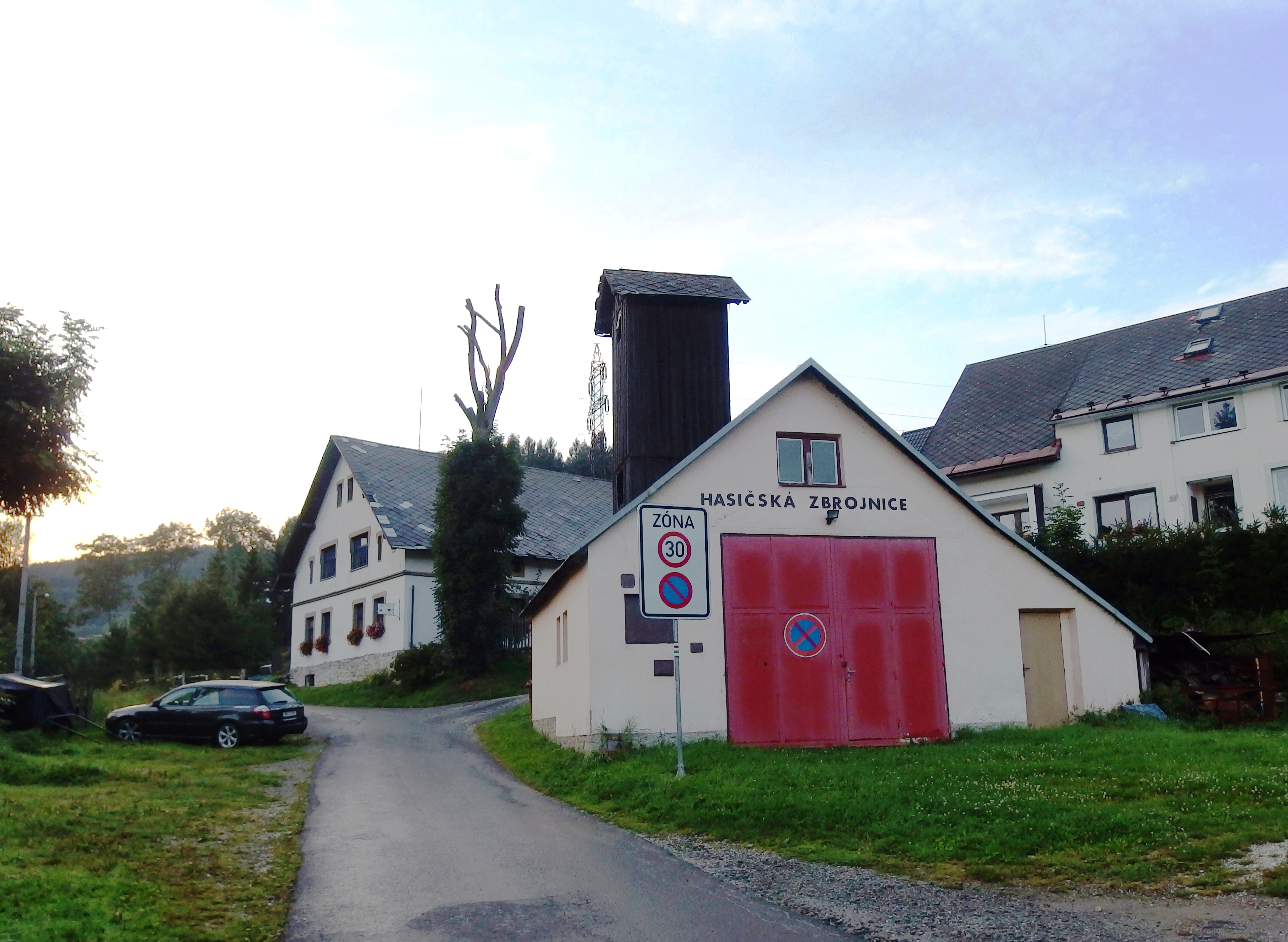 Ostružná, okres Jeseník, Česká republika.